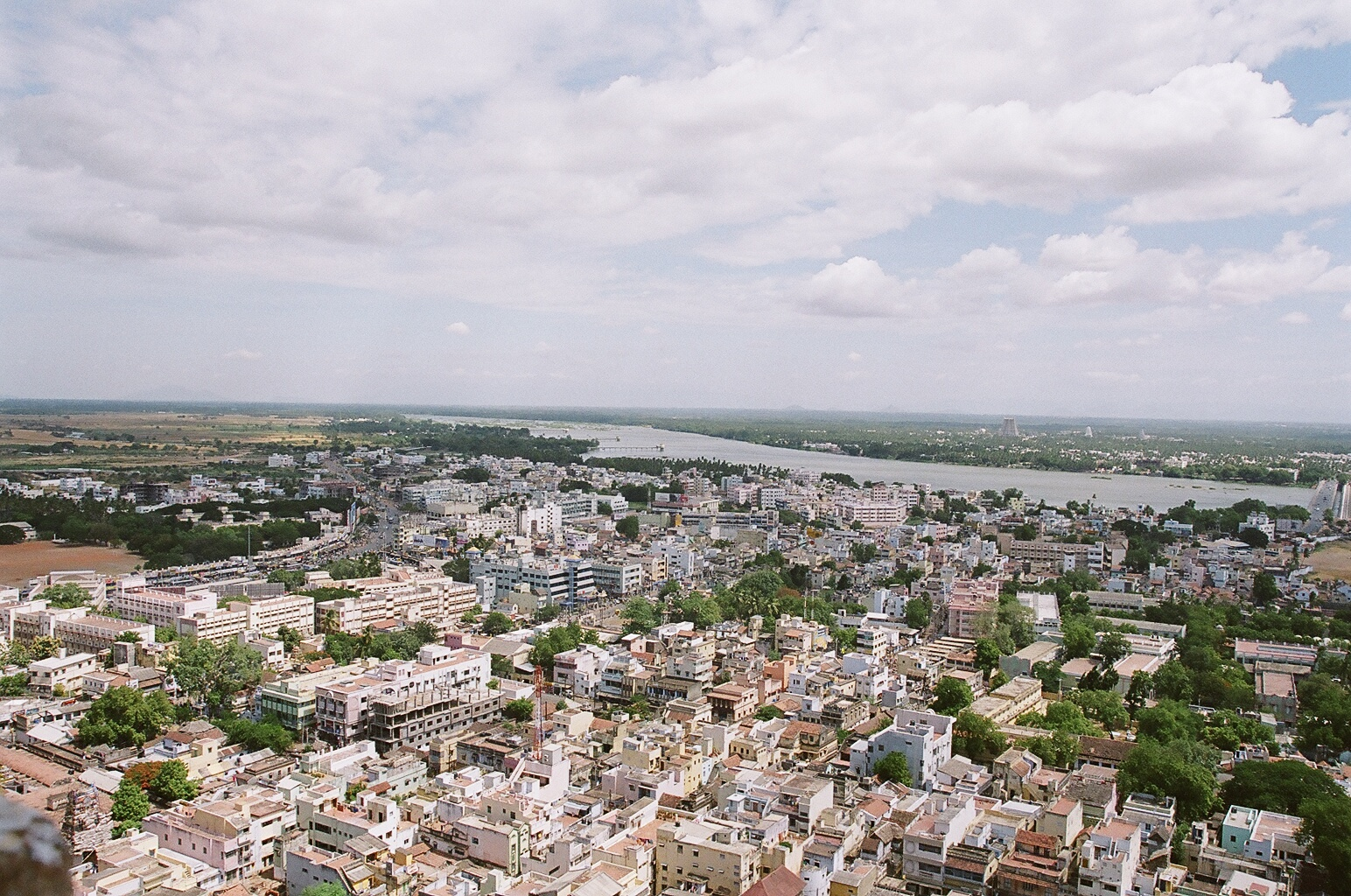 Trichy city, the Kaveri river and three gopurams of the Srirangam temple as seen from the Rock-Fort temple in Trichy.